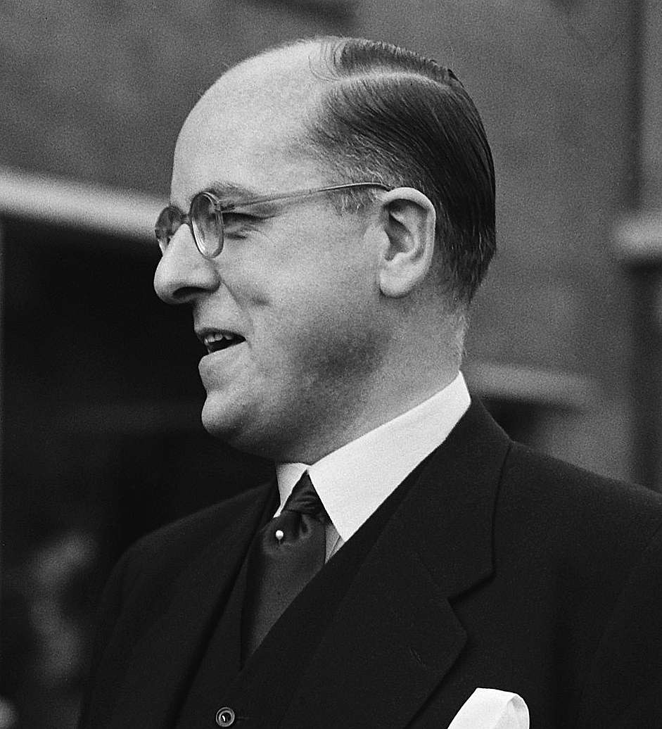 F.M.A. Schokking, Mayor of the city of The Hague, the Netherlands